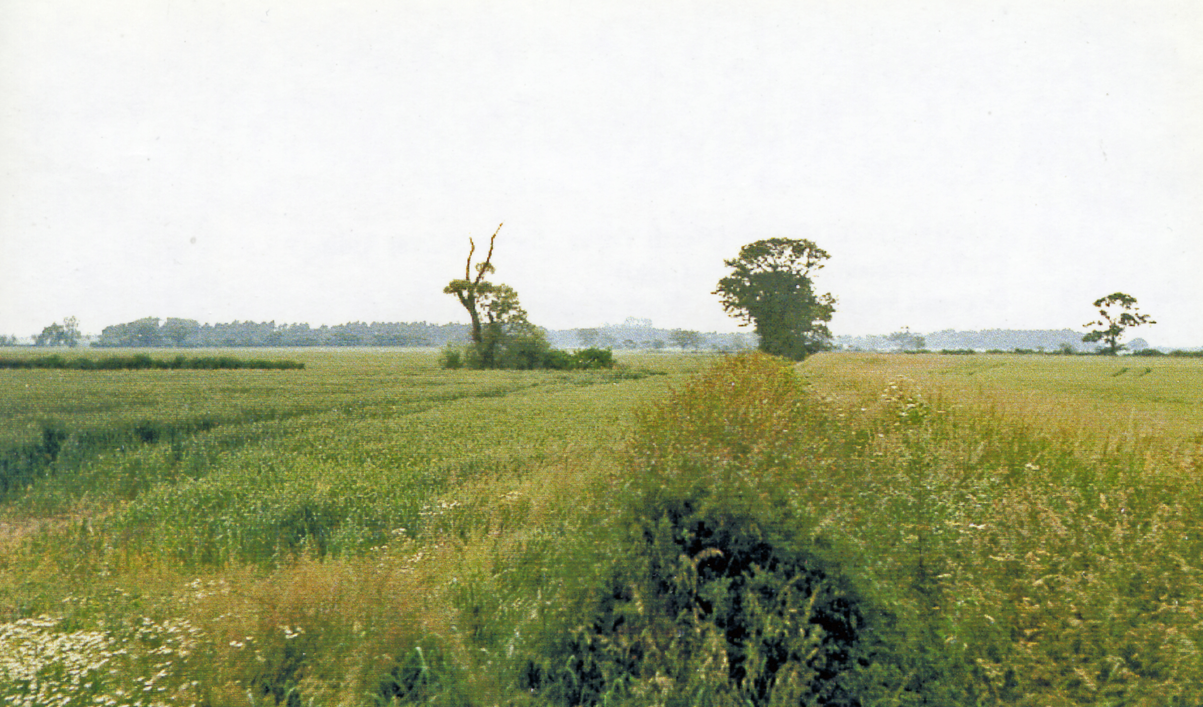 Site of Cottingwith station (DVLR), 1988. View westward, across former course of the Derwent Valley Light Railway, from York (Layerthorpe) (right) to Cliff Common (left). Nothing to be seen in 1988, the line having been closed completely since 31/12/64 (to passengers since 1/9/26)!